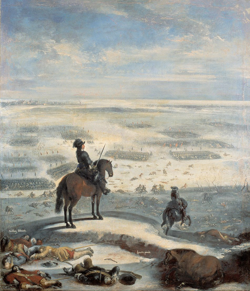 Charles X Gustav (1622-1660) after the battle of Iversnaes